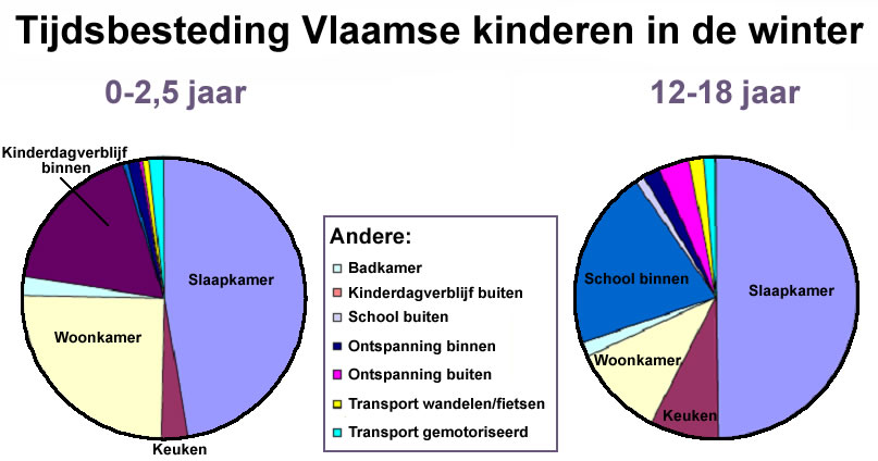 Graphic of the time activity of Flemish children